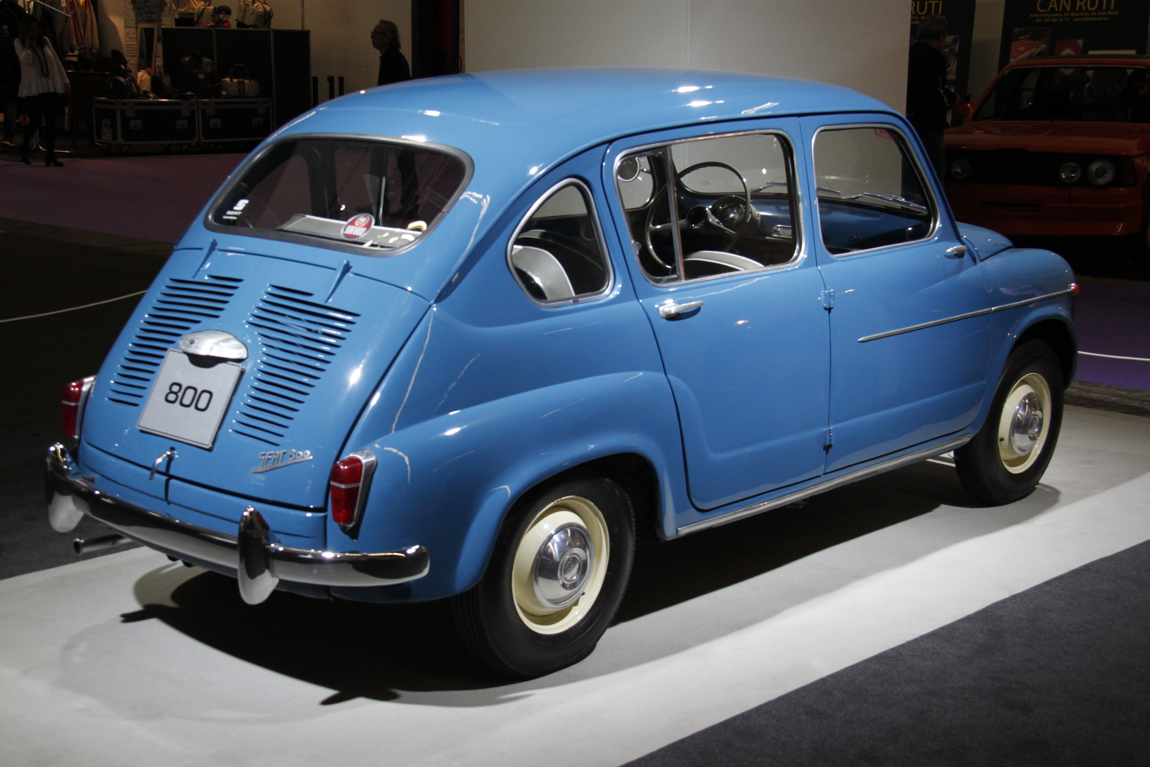 Seat 800 at Auto Retro 2017 in Barcelona